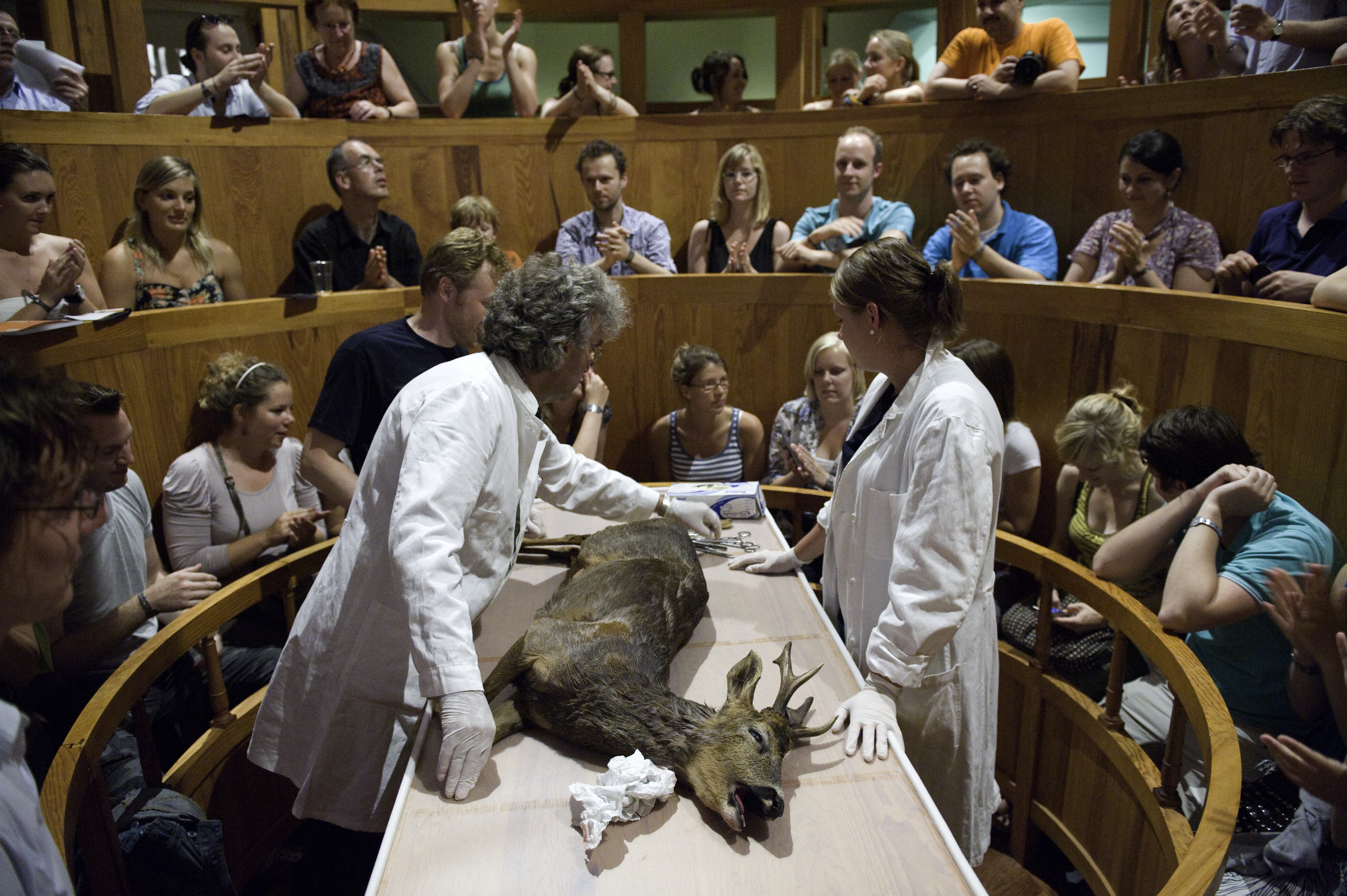 Dissection of a deer during the 2nd Leiden Museum Night in the Anatomical Theatre of Museum Boerhaave, Leiden The deer had been killed earlier in a road accident